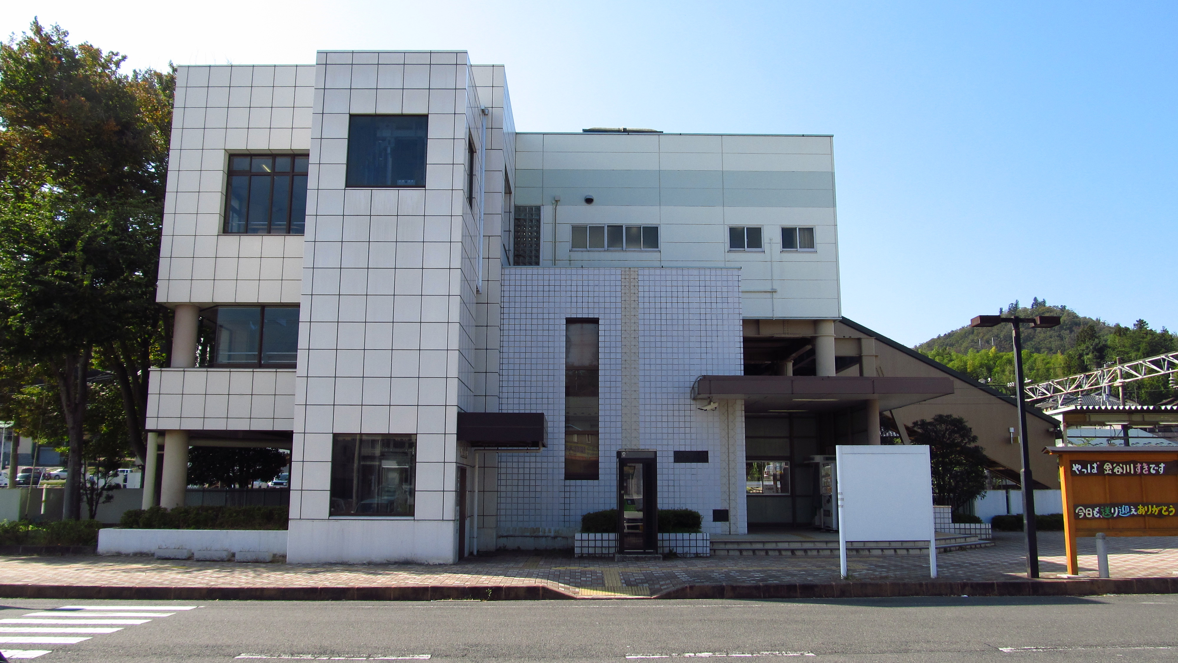 The building of Kanayagawa Station on the Tōhoku Main Line in Nihonmatsu city, Fukushima prefecture, Japan